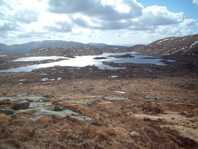 Loch Enoch from the slopes of Mullwharchar. NX450862 looking SW